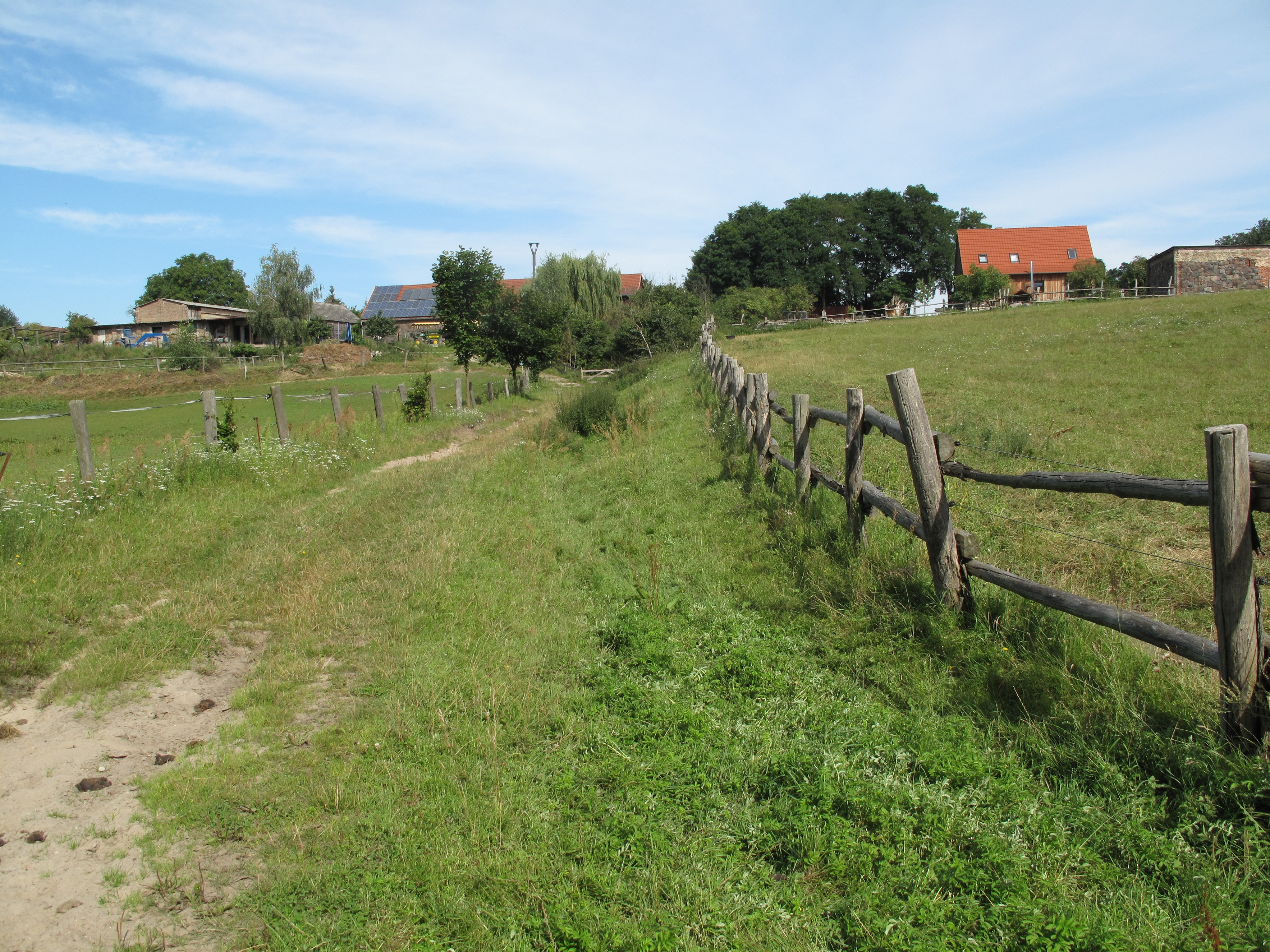 Landscape in the south of Ruhlsdorf. The village Ruhlsdorf is a part of Hohenstein, a civil parish (Ortsteil) of the town Strausberg in the district Märkisch-Oderland, Brandenburg, Germany.